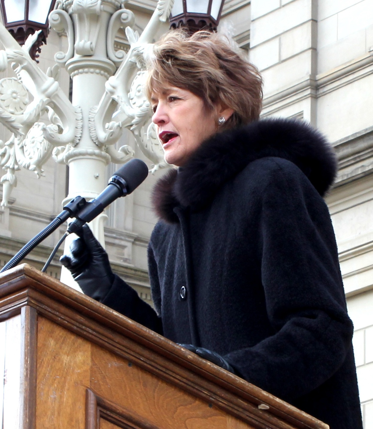 Michigan State Representative Joan Bauer